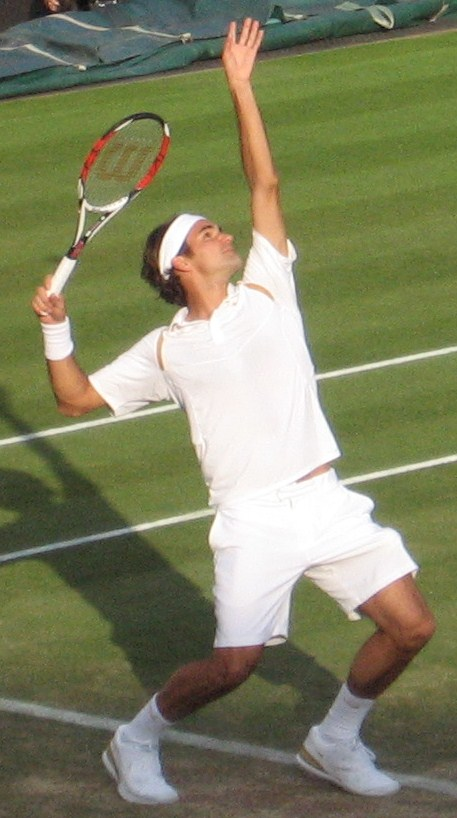 Cropped image to be infocus on Roger Federer